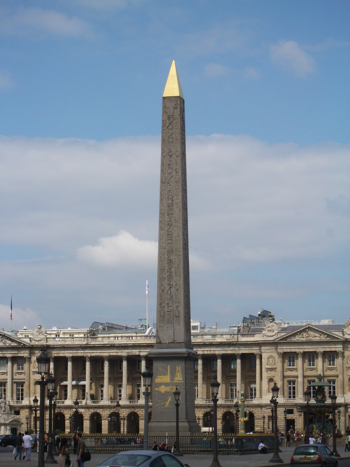 Cleopatra's Needle in Paris at the Place de la Concorde (Hôtel de Crillon in background). Picture taken on 8/5/2006. Softchewy 17:22, 20 August 2006 (UTC) Paul Bruder.